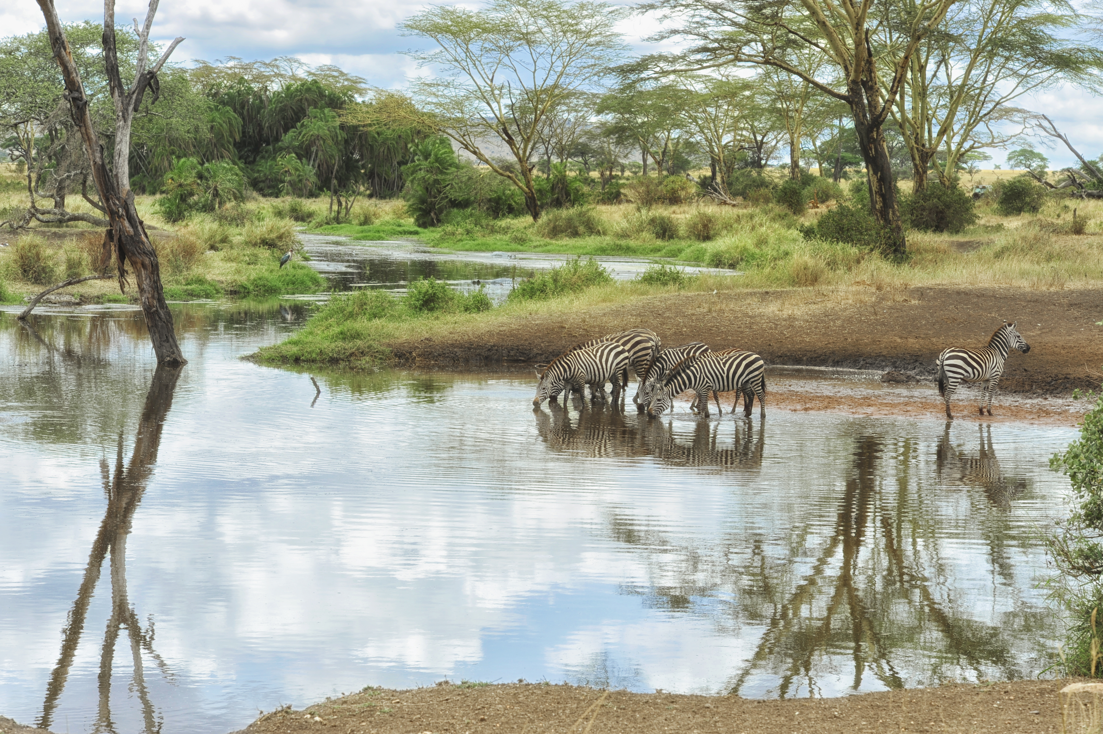 Zebras drinking, at the Serengeti National Park